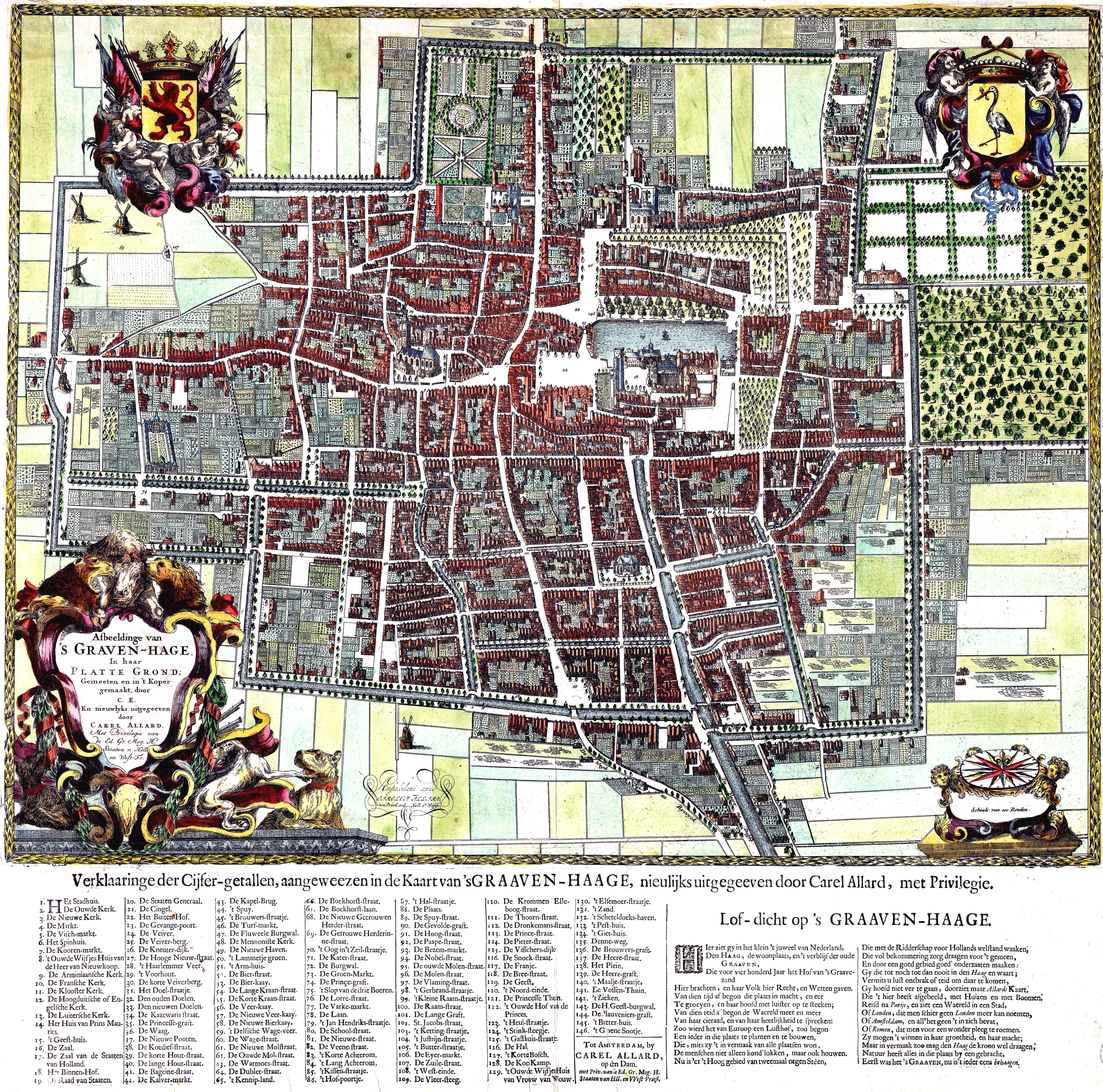 Map of The Hague, the Netherlands, in 1666. Made by Cornelis Elandts